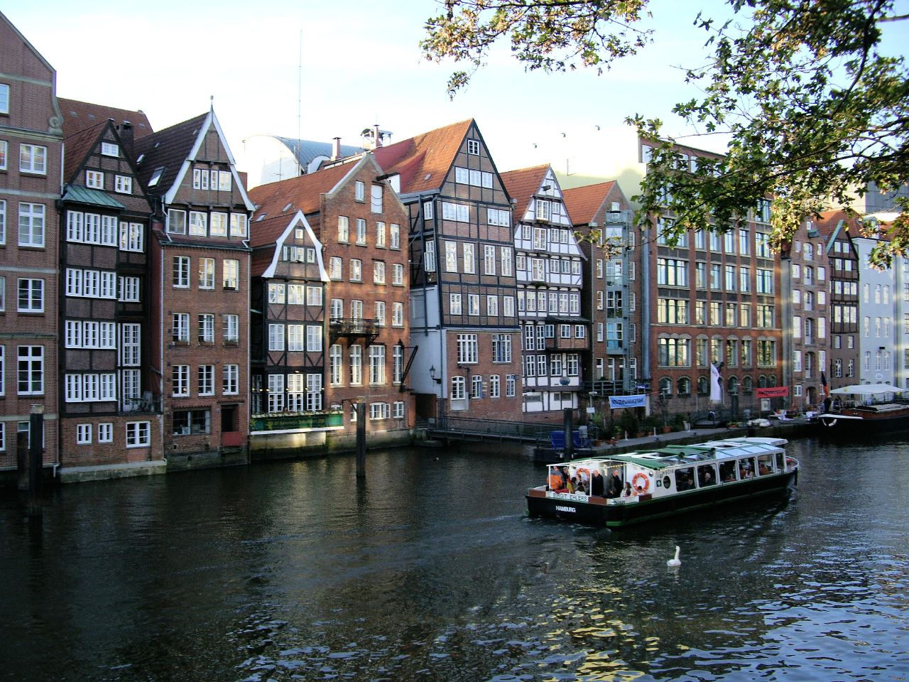 Fachwerkhaeuser am Nikolaifleet, Hamburg